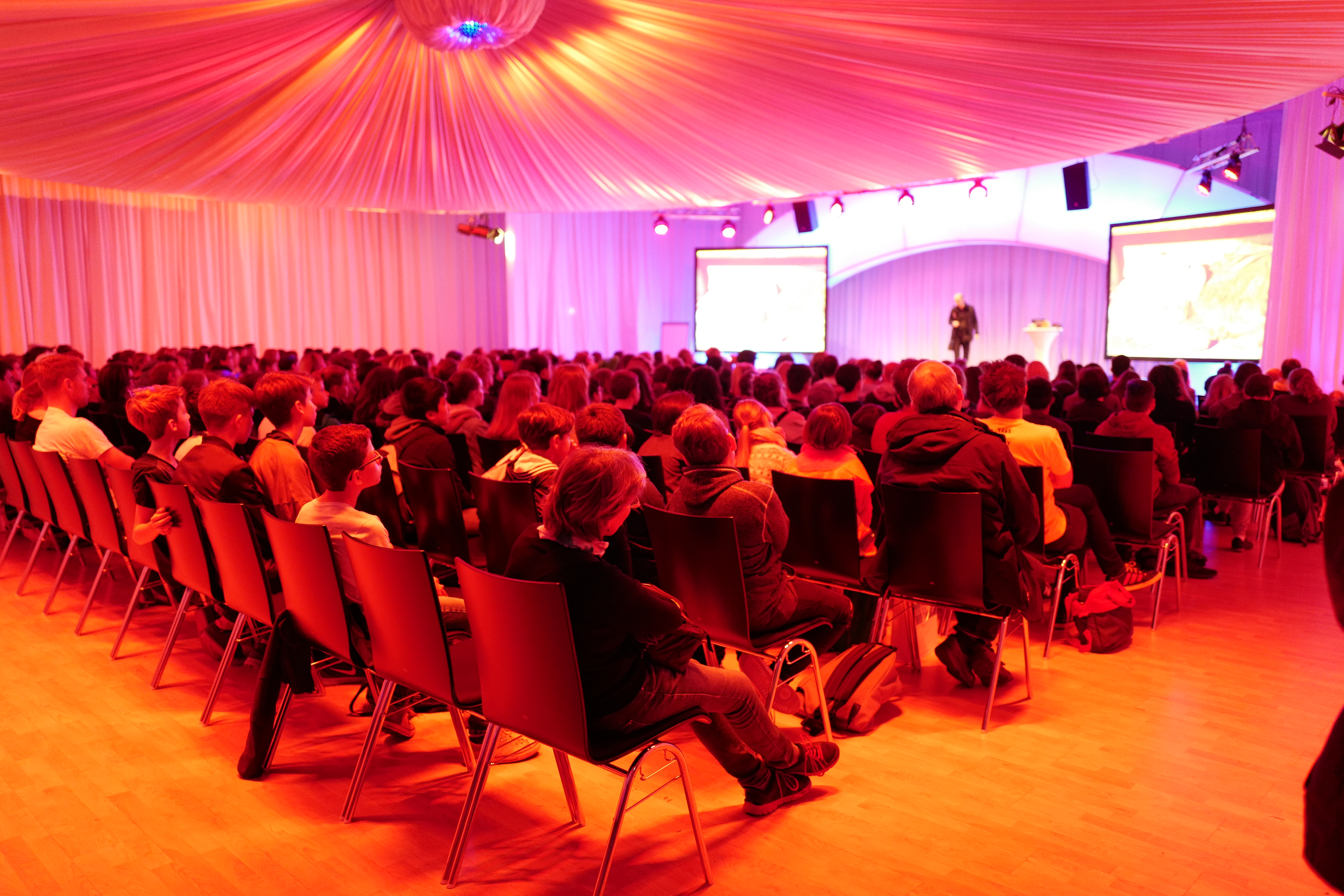 Science Days: Speeches & shows of professional scientists for kids at Europapark in Rust, Germany (Oct. 2017), spaeker here: Mark Benecke (